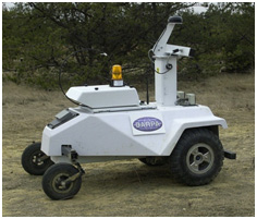 LAGR Robot: One of about 30 such vehicles built for the DARPA LAGR program which ran from 2004-2008. The vehicle is about 1 meter high and weighs about 100kg. Its primary perception sensors are two pairs of stereo cameras.